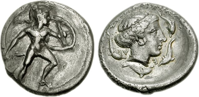 Sicily, Syracusa. Dionysios I. 405-367 BC. AR Drachm (4.17 g, 10h). Reverse die signed by Euainetos. Struck circa 405-400 BC. The hero Leukaspis advancing right, holding sword and shield Head of Arethusa right; four dolphins around, V-Ǝ flanking neck. Cf. Boehringer, Münzprägungen, pl. II, 16; SNG ANS -; cf. SNG Copenhagen 665. VF, toned, cleaning marks and areas of porosity. Extremely rare. Ex Collection C.G. (Classical Numismatic Group 76, 12 September 2007), lot 162; Triton III (30 November 1999), lot 277.